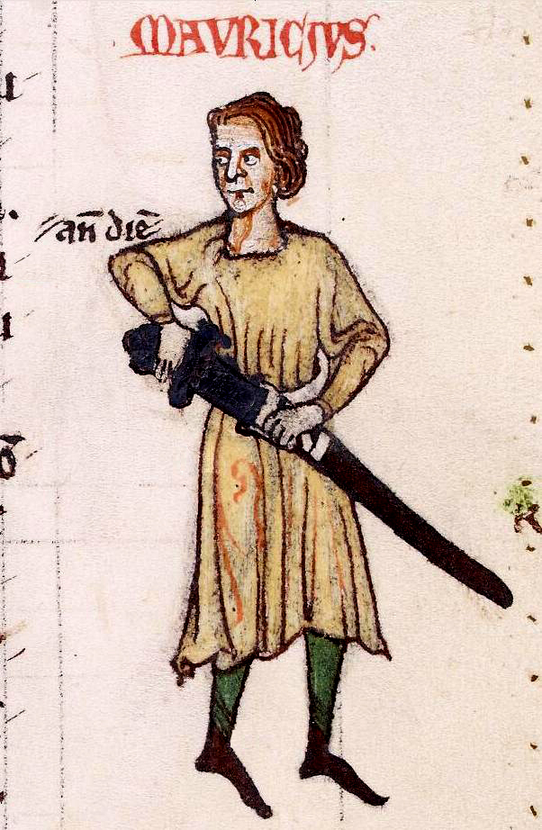 Maurice FitzGerald, Lord Lanstephan as shown in a manuscript of the Expugnatio Hibernica, written in 1189 by his nephew, Gerald of Wales